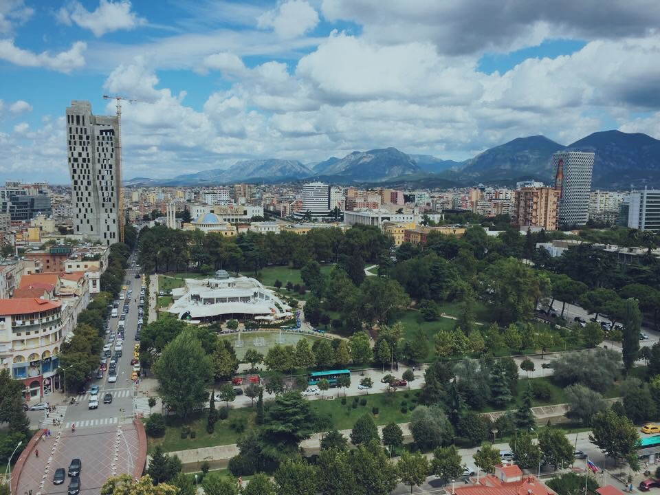 View of Tirana's Rinia Park with towers 4-Ever Green and TID in the background